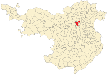 Navata